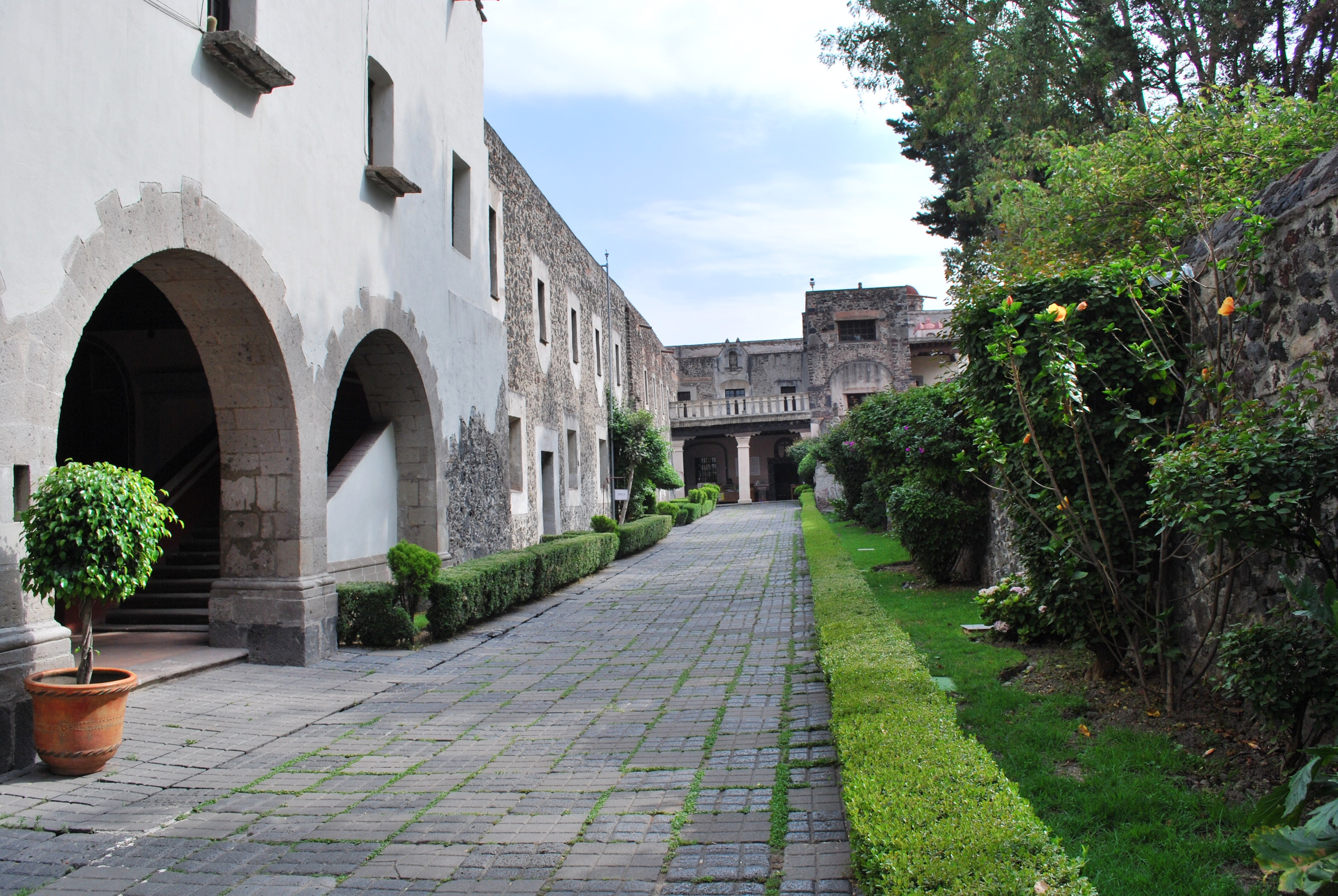 Walkway from main gate to main building of the Museo Nacional de las Intervenciones (ex Monastery of Churubusco) in Coyoacan borough, Mexico City